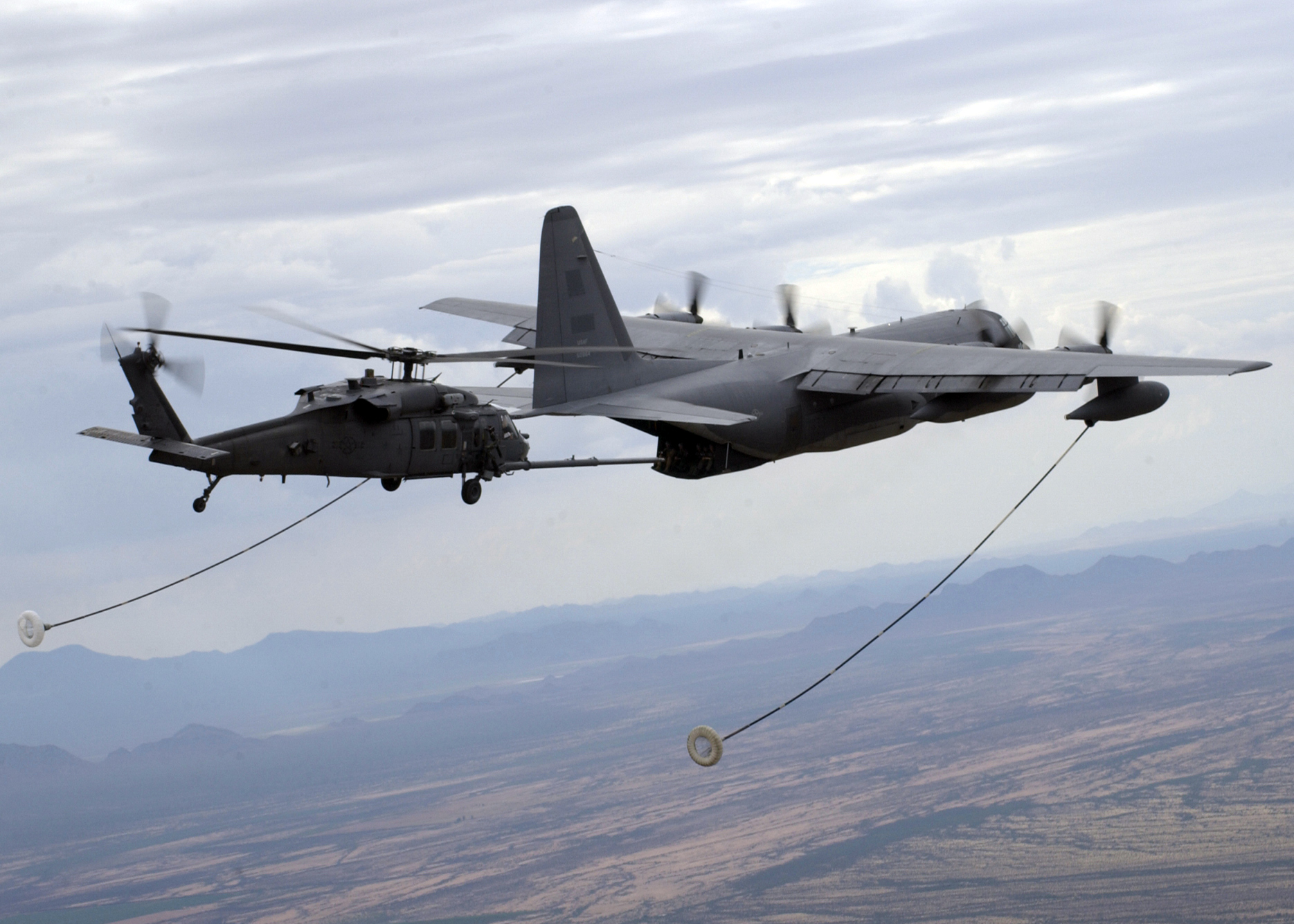 An HH-60G Pave Hawk with the 55th Rescue Squadron maneuvers into position to refuel from an HC-130P/N with the 79th Rescue Squadron. (U.S. Air Force photo by Airman 1st Class Veronica Pierce)